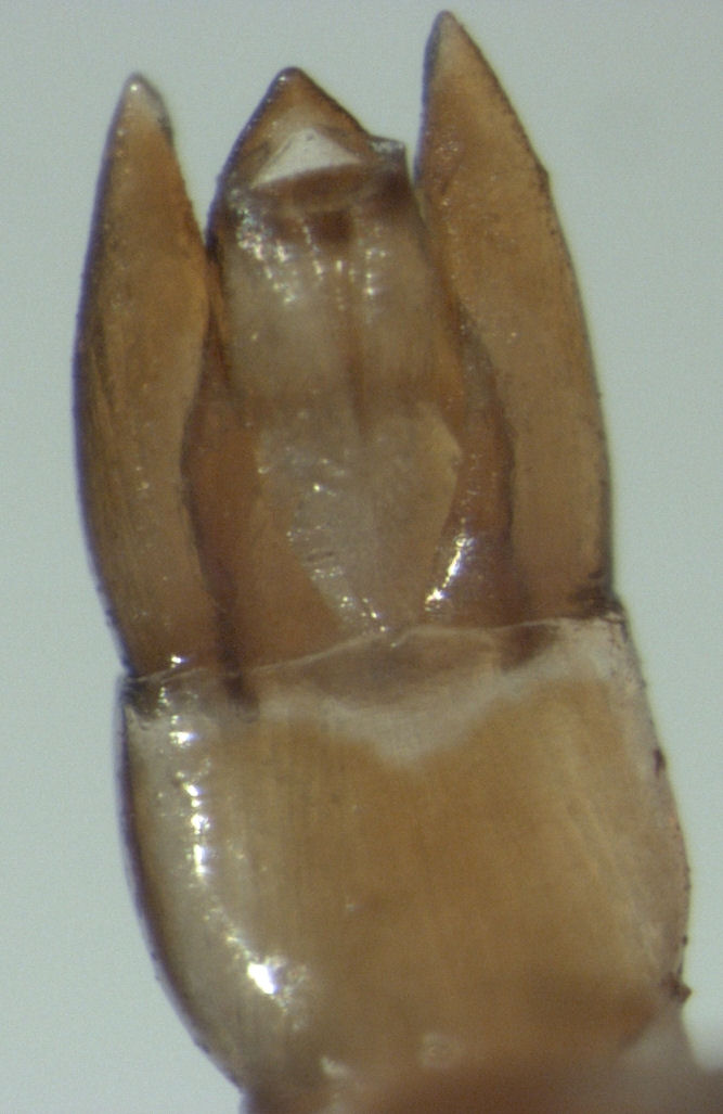 male aedeagus of Tormissus linsi (ventral)